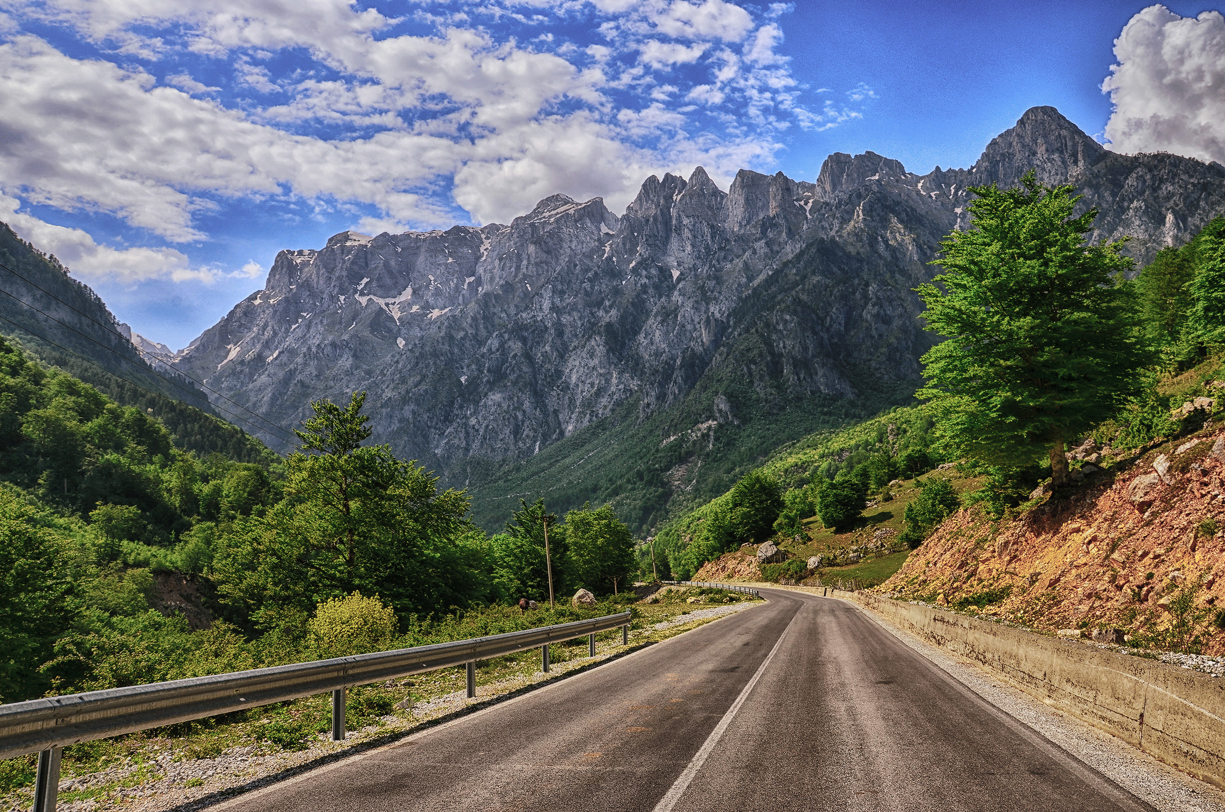 Road in the Valbona Valley near Valbonë, Tropojë, Albania, with the Kollata in the background